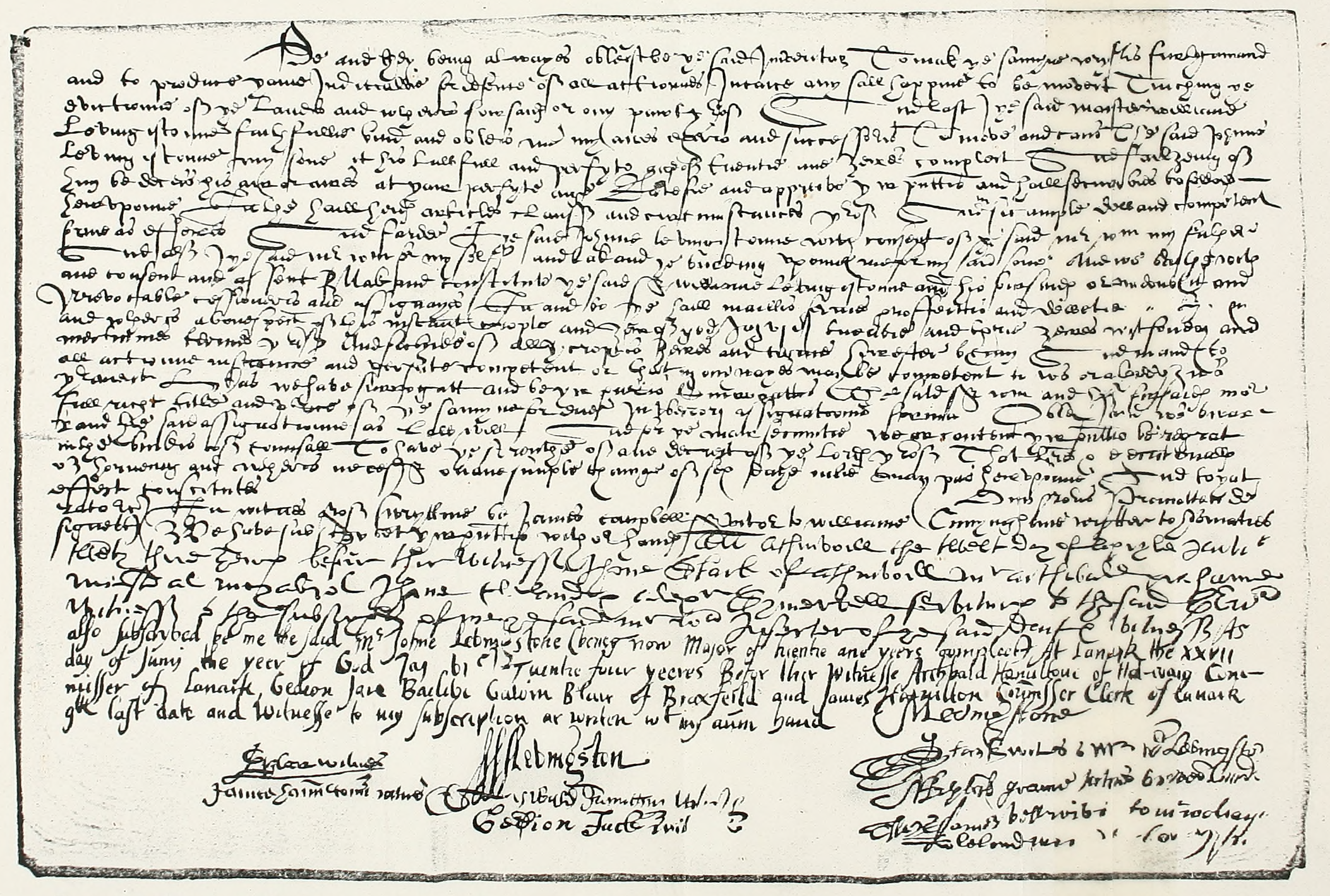 John Livingston of Ancrum's handwritten document